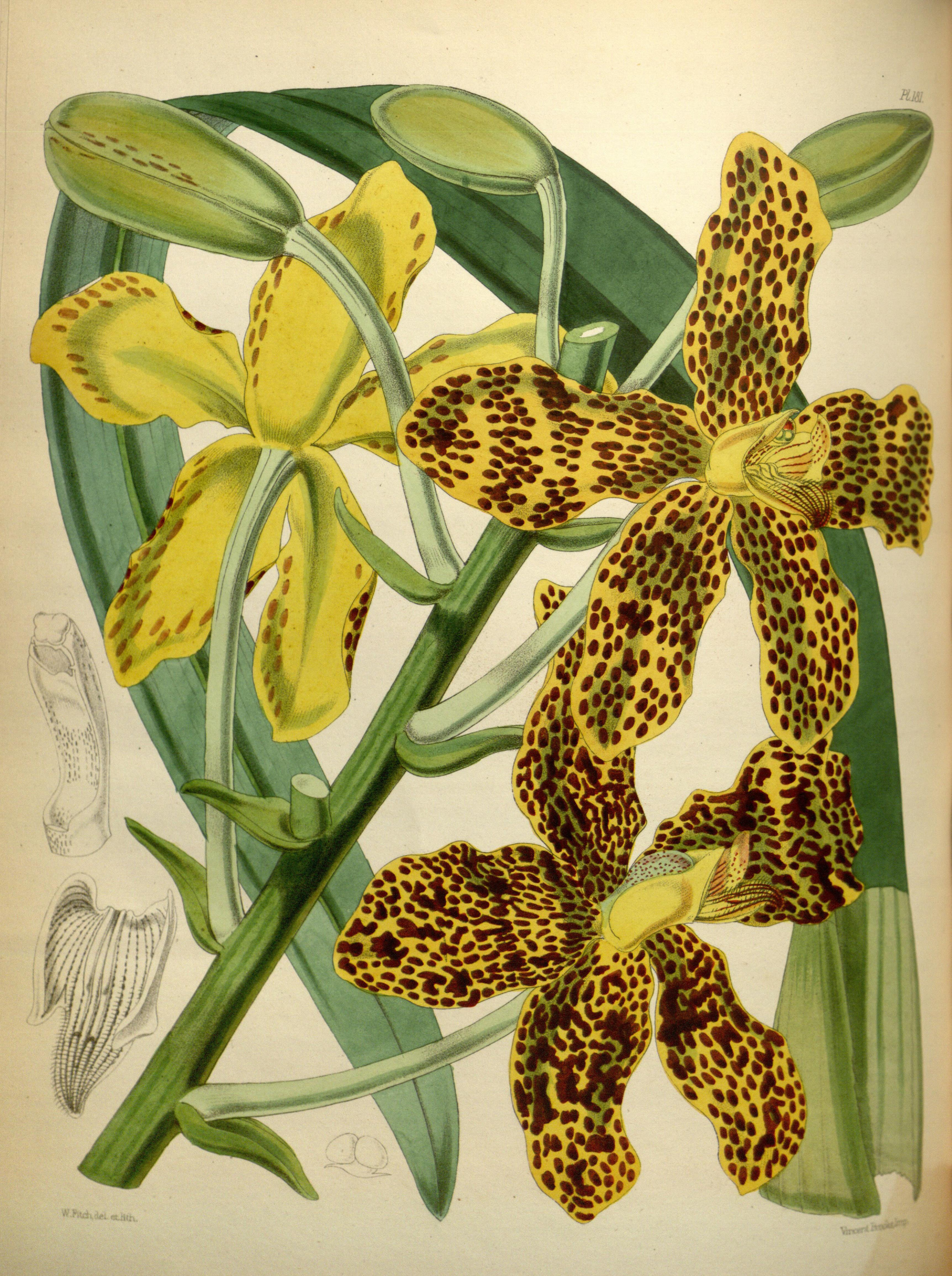 A second century of orchidaceous plants /Selected from the subjects published in 'Curtis' botanical magazine ̓since the issue of the 'First century.' Ed. by James Bateman...